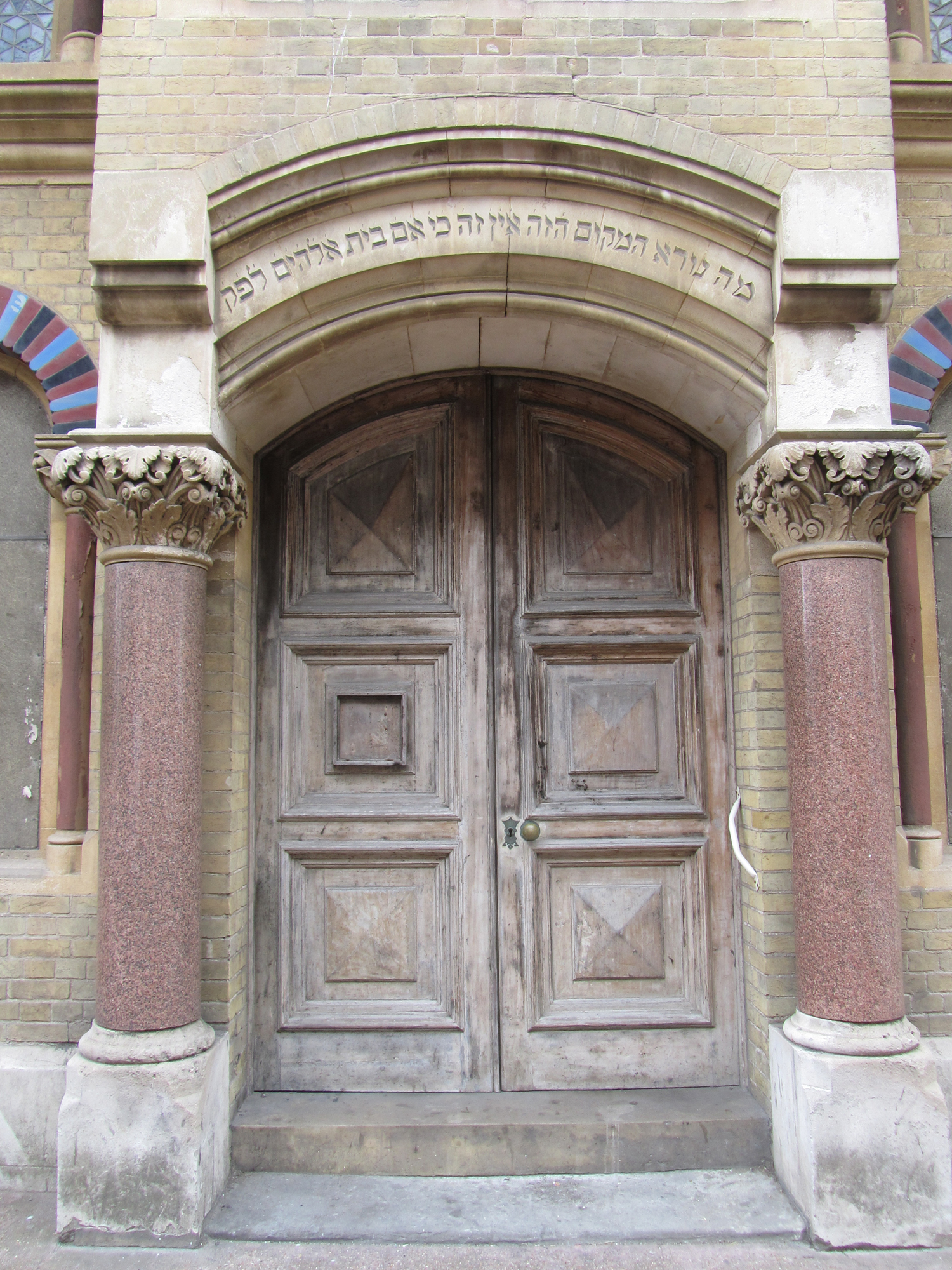 Entrance of Middle Street Synagogue in Brighton, England